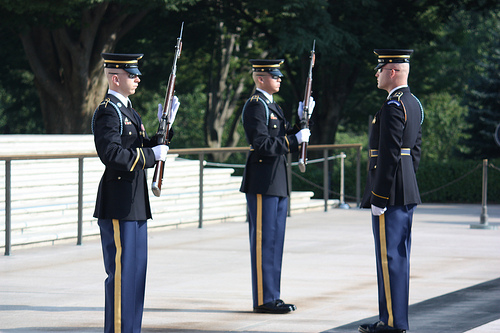 By U.S. Army